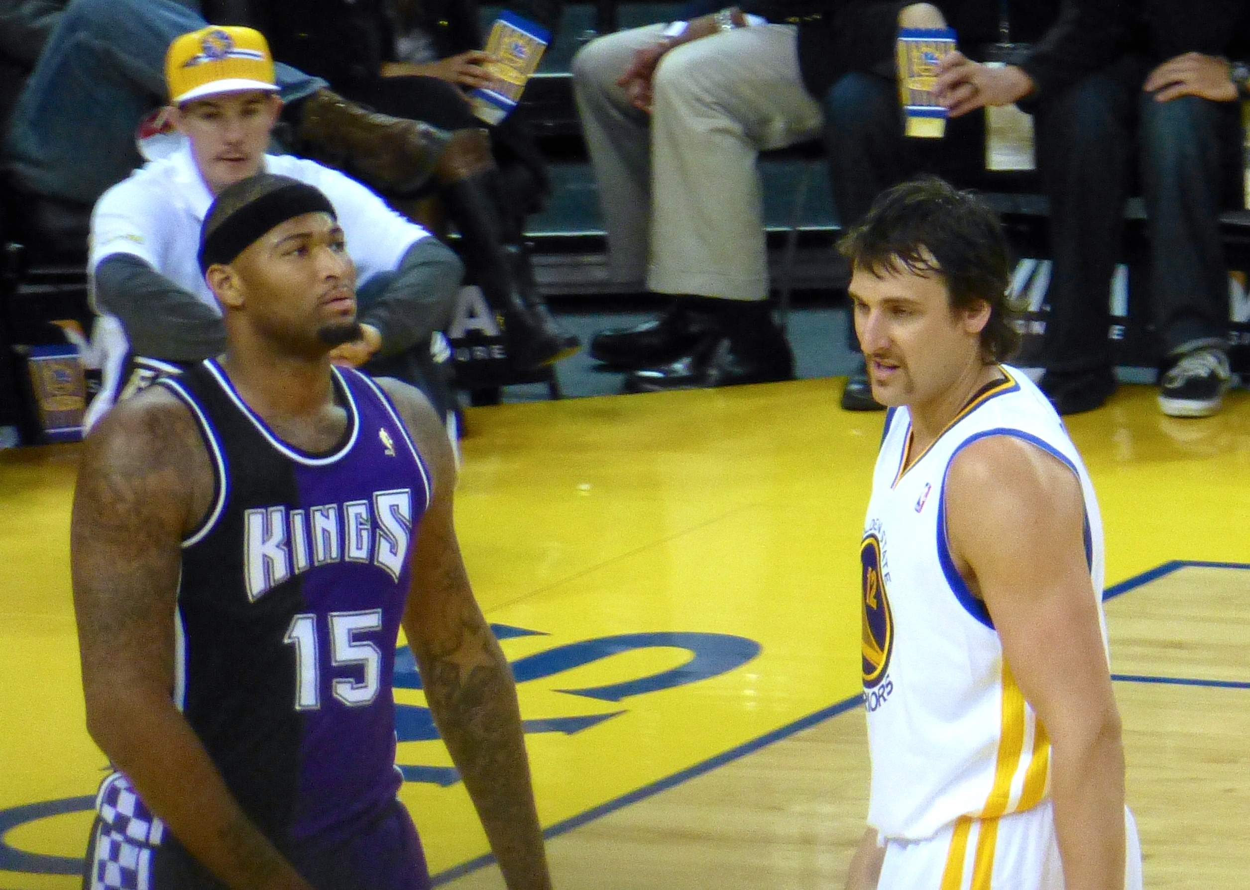 DeMarcus Cousins (left) and Andrew Bogut (right), Sacramento Kings at Golden State Warriors March 6, 2013